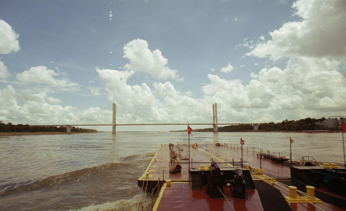 Original description: MV Mississippi preparing to pass under the new cable stayed US Hwy 82 bridge between Greenville, Mississippi and Lake Village, Arkansas.